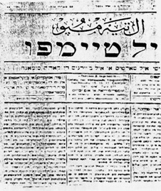 El Tiempo cover, 1800s